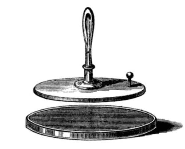 Drawing of electrophorus electrostatic generator, invented by Johan Carl Wilcke in 1764, from an 1840 chemistry text. It consists of a 'cake' of dielectric resinous material like wax, at bottom, and a metal plate on an insulated handle that can be placed on it. After charging the bottom plate by rubbing with fur, the top plate could be repeatedly charged by placing it on the surface and grounding the top by touching the small ball, then removing it. Alterations: removed caption and part labels, increased brightness.